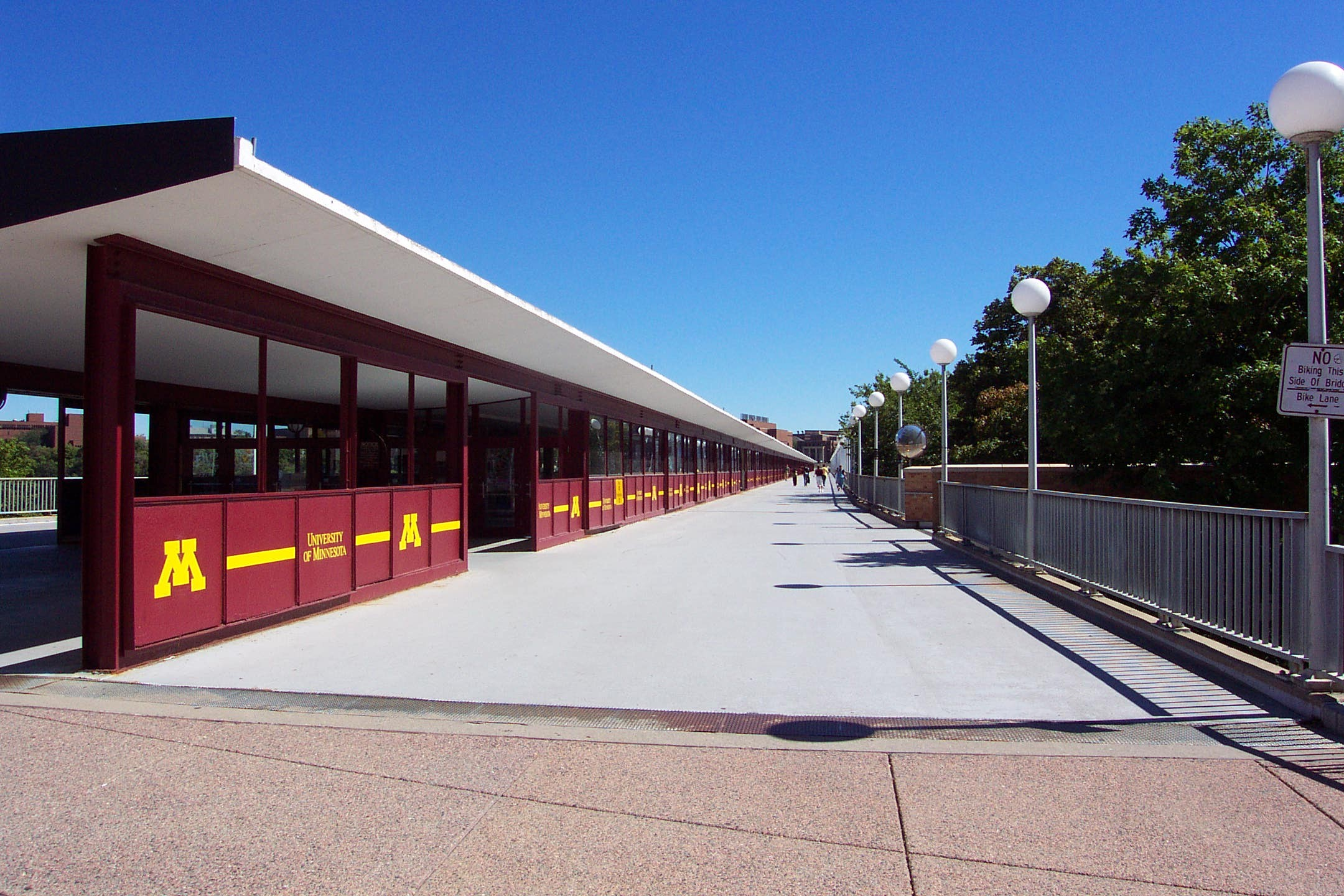 I took this picture on September 2, 2005.